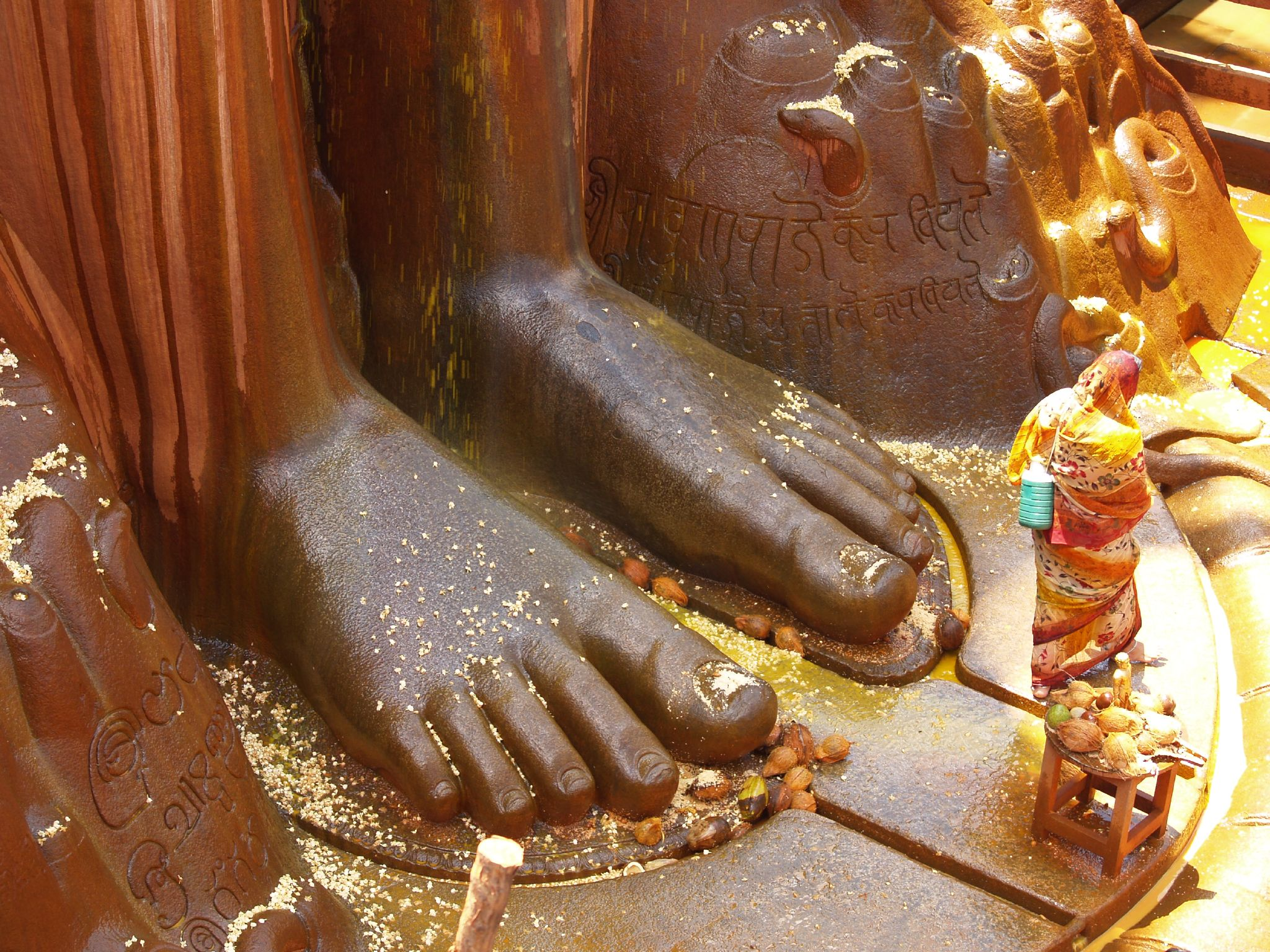 Woman at the feet of Lord Bahubali at Shravanbelgola, Karnataka, India. The ground is covered in coconuts, rice and liquid offerings.